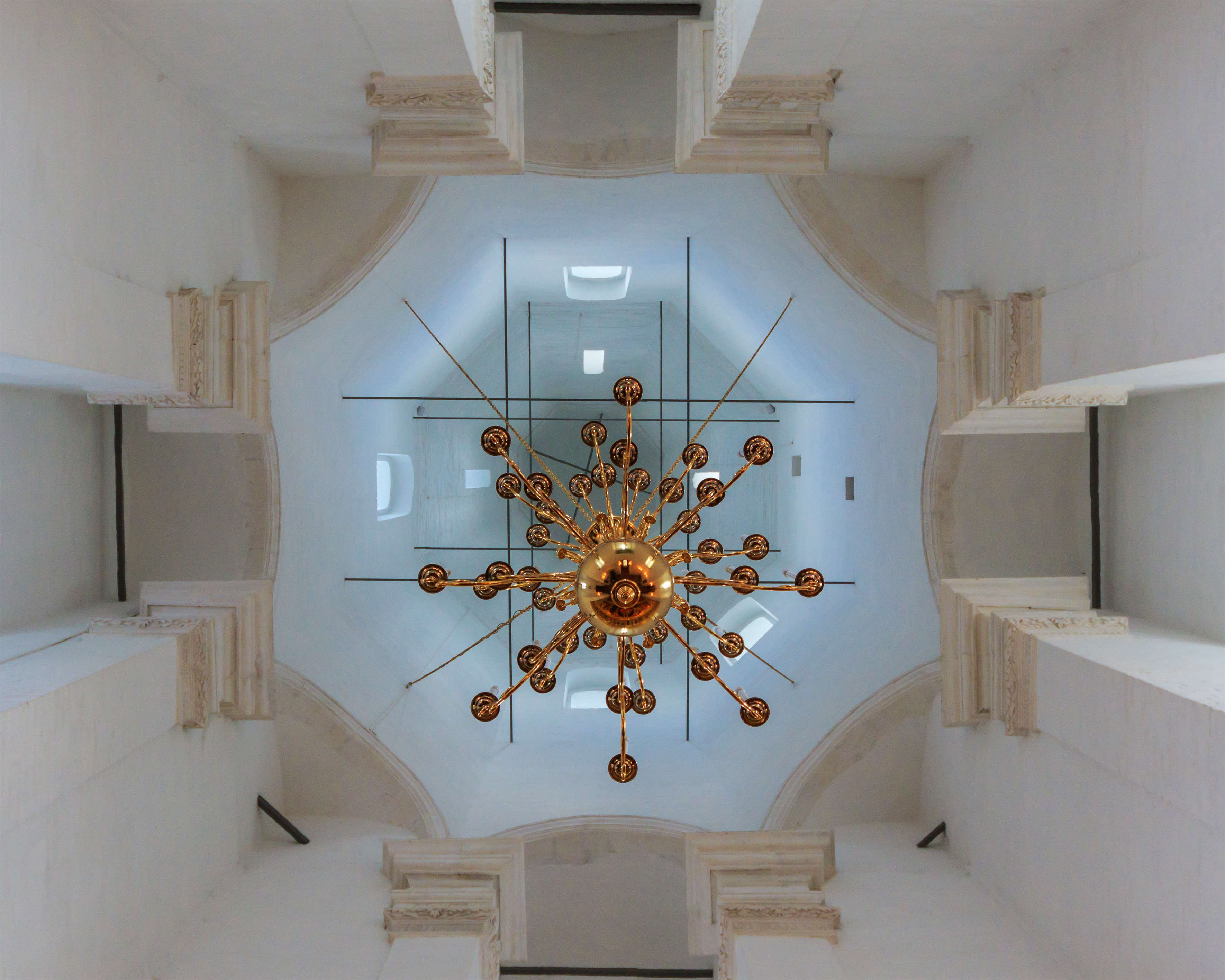 Interiors of the Ascension Church in Kolomenskoe Park. Moscow, Russia.